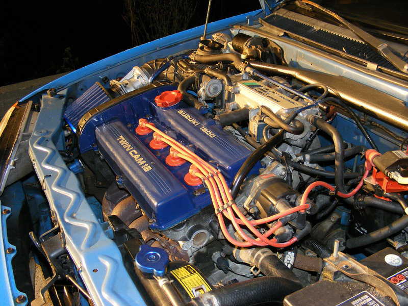 Suzuki Swift Gt/Gti engine